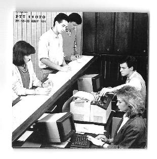 This photo is PTT-teller workstation from my book: Racunari TIM,p.78, NK,Belgrade 1990